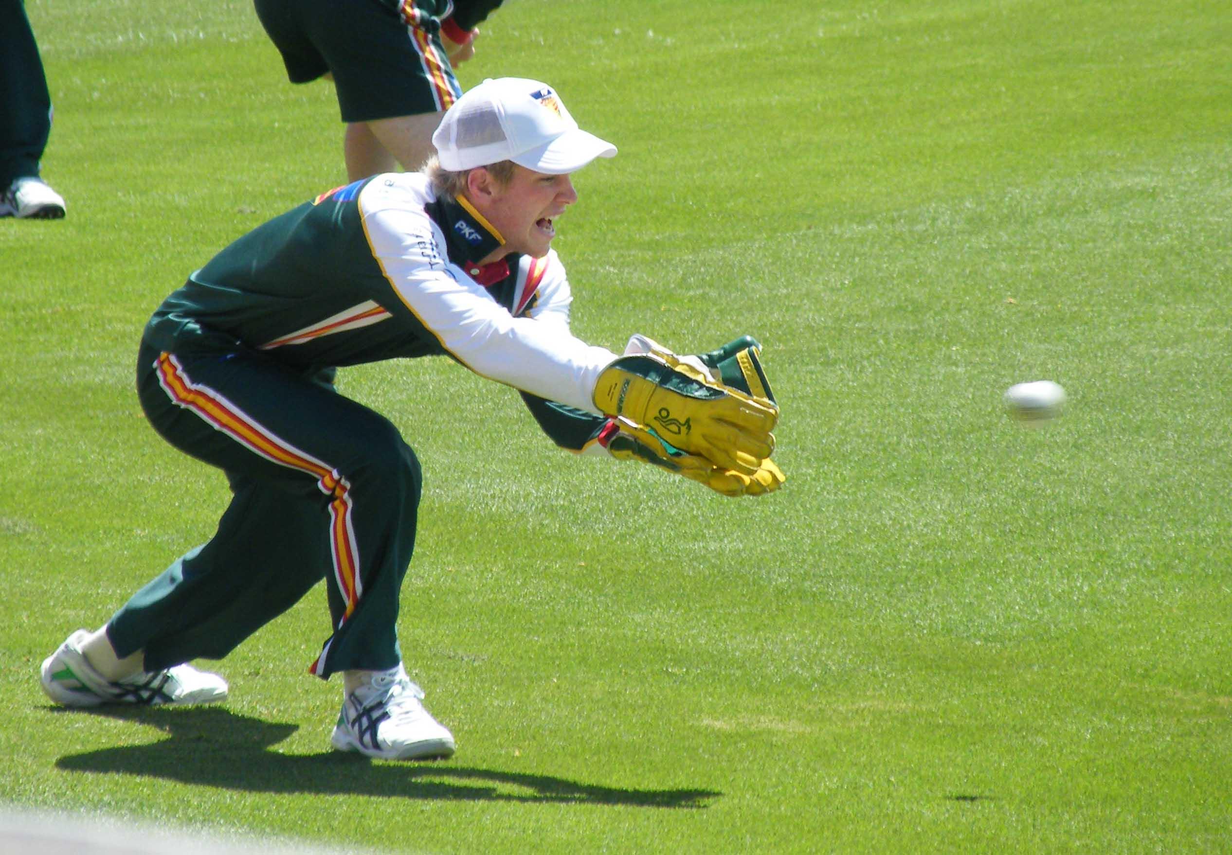 Tasmanian Cricketer Tim Paine - NSW v Tasmania, Hurstville Oval. Saturday 29 November 2008.